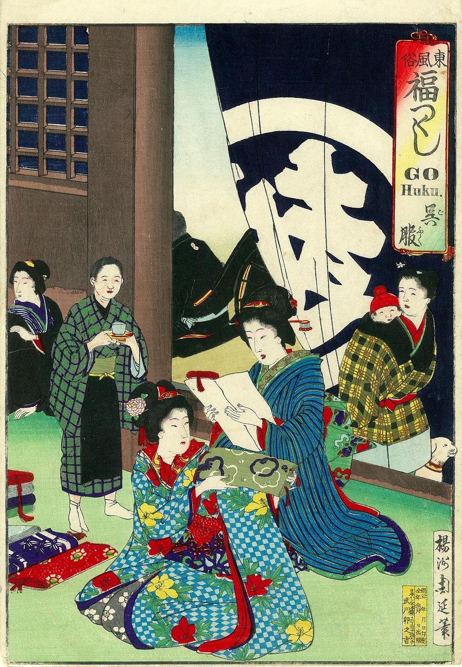 A woman shopping for fine kimono cloth at the drapers - from the series Azuma fūzoku fuku tsukushi